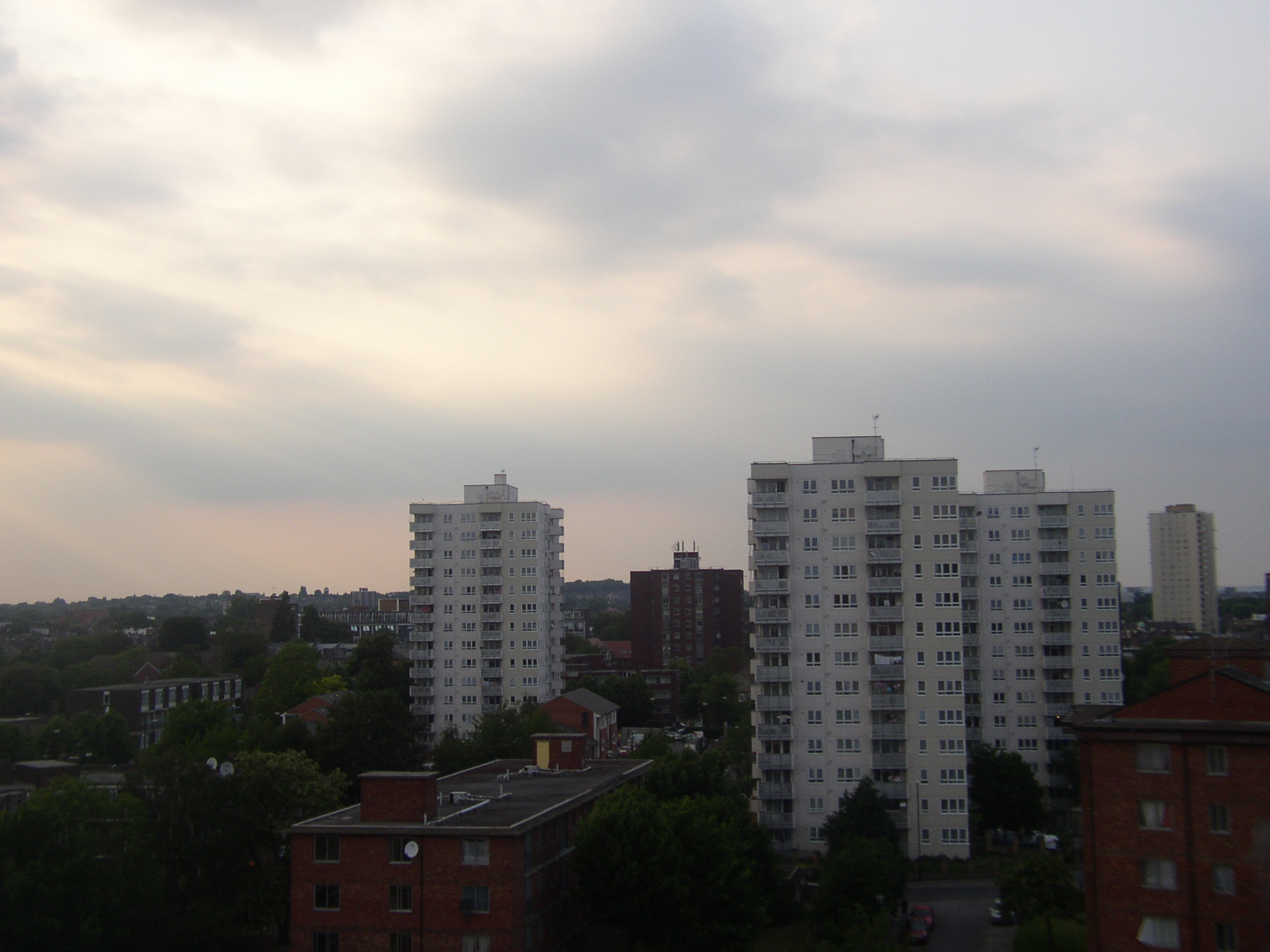 Photograph of South Acton estate, with Harlech Tower (location for Only Fools and Horses) on the left, Corfe Tower in the middle and Beumaris Tower on the right. Taken by Mohamed Ansar (User:Selia_lahugeea) on 08 June 2006 19:25:22